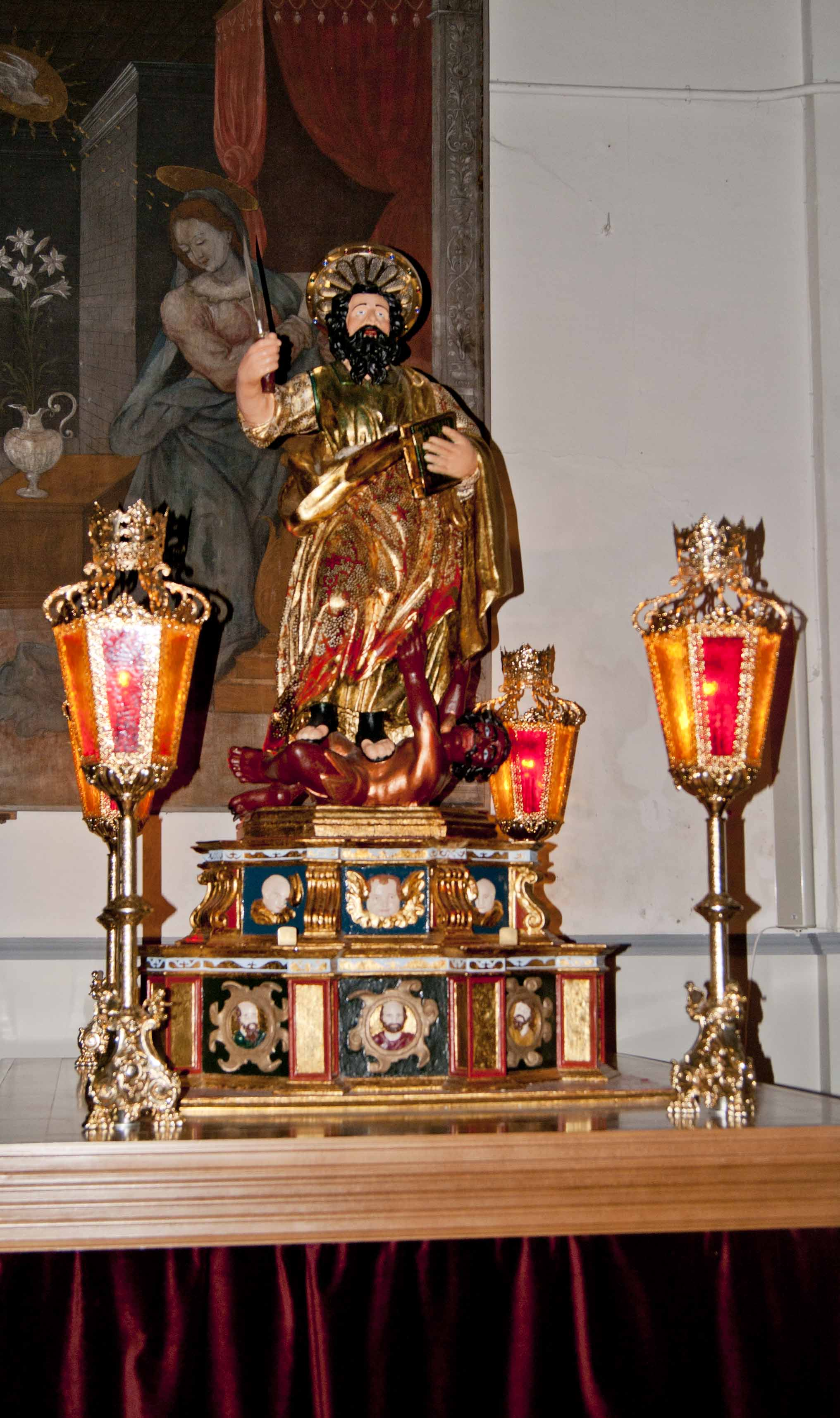 Bulbuente's Saint Bartholomew in his pedestal